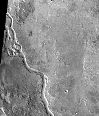 Apsus Vallis, as seen by themis. Location is 35.3 degrees north latitude and 134.9 degrees east longitude. Picture is less than 17 km wide.